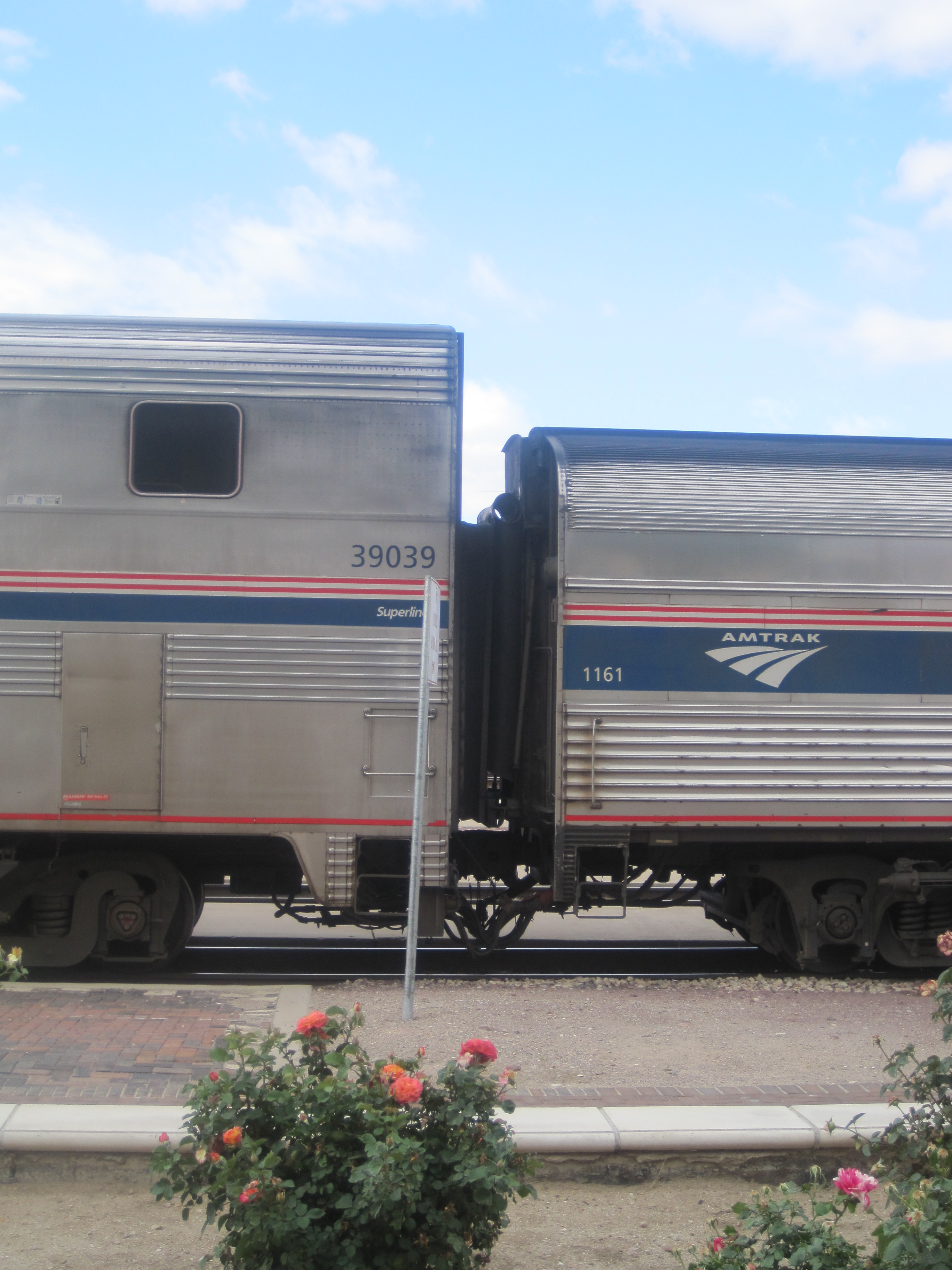 A Superliner transition sleeper (transdorm) at Barstow, California. Note the lower level diaphragm connecting to the baggage car.